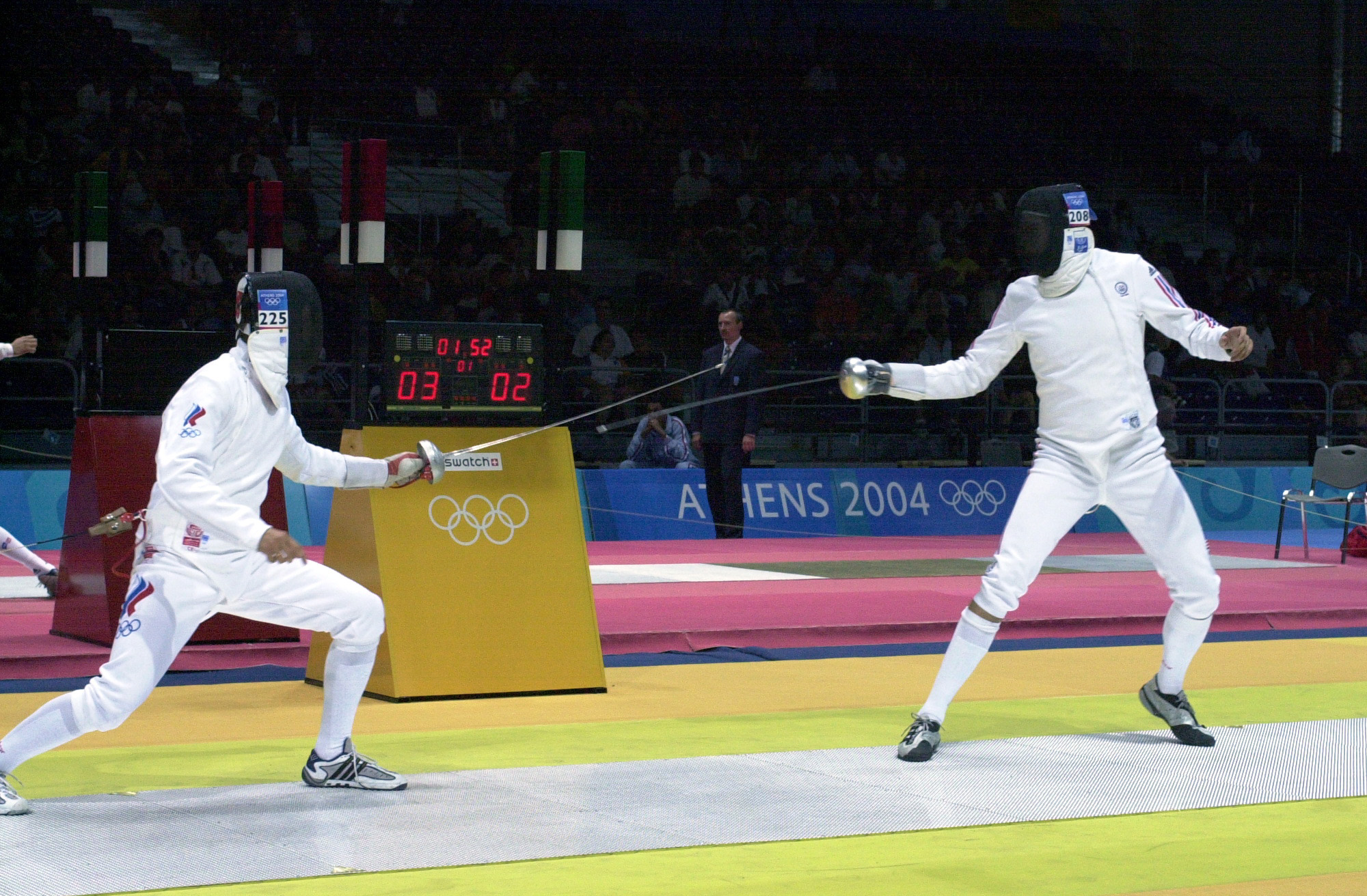 U.S. Air Force 2nd Lt. Weston Kelsey (right) fences for advancement against Russian Igor Tourchine (left) in the second round of the Olympic Men's Individual Epee event at the Helliniko Fencing Hall just outside Athens, Greece, on Aug. 17, 2004. This was Kelsey's first Olympic attempt and he did not advance to the third round.